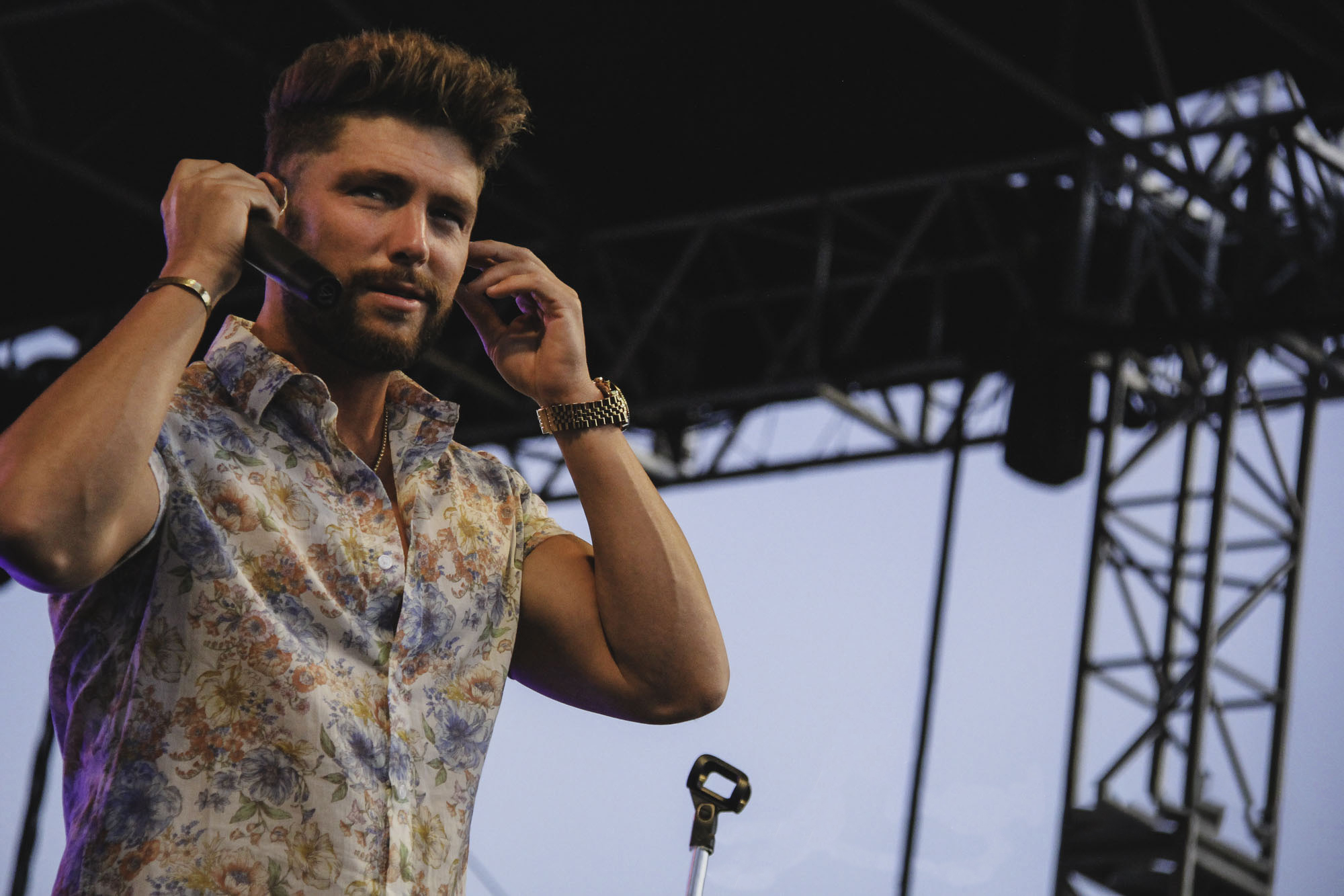 Chris Lane during his set at Elitch Gardens on June 2, 2018 in Denver, Colorado.